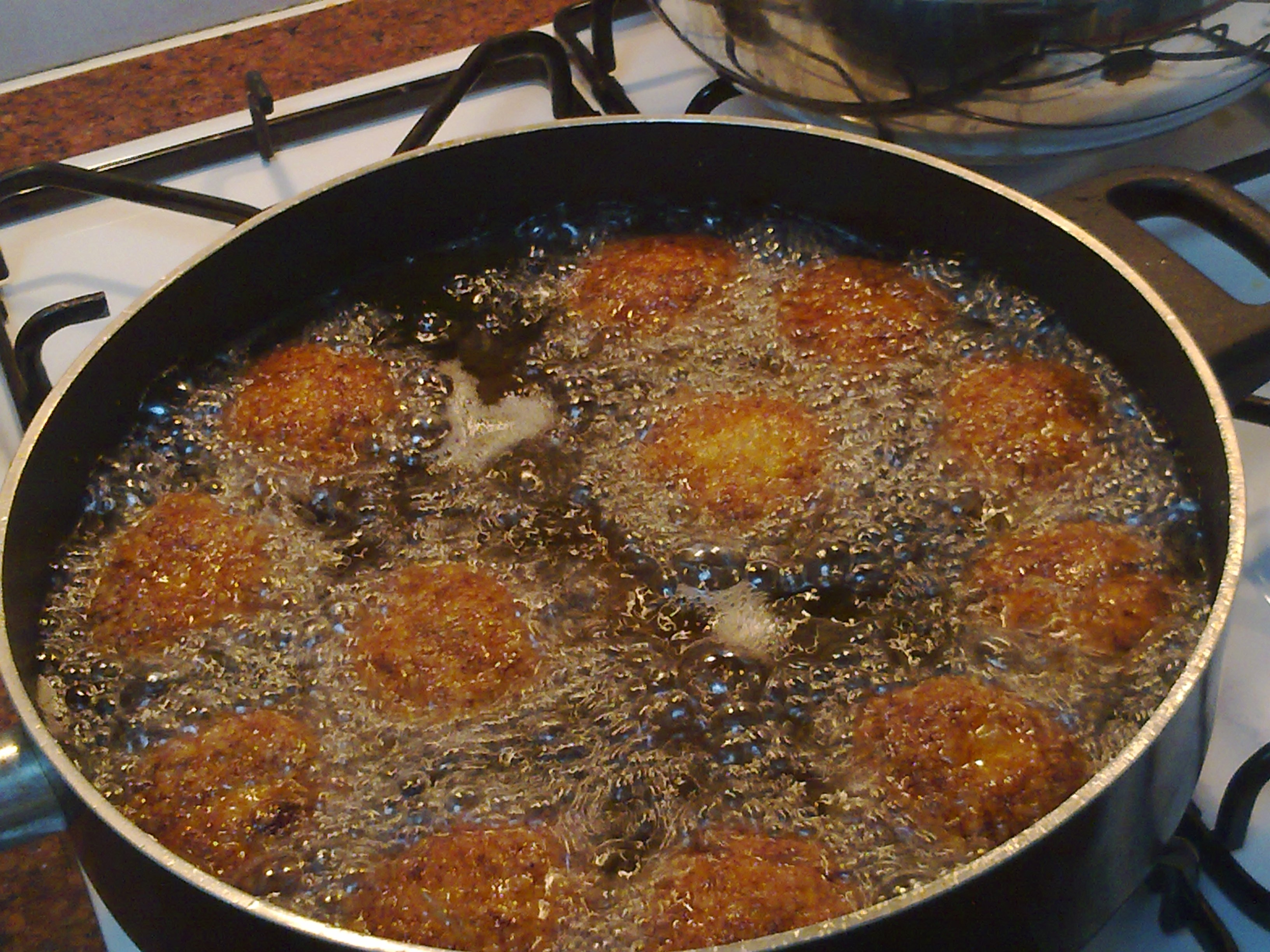 Frying "Fritas De Prasa" a traditional sepharadi food